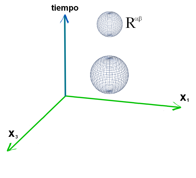 This is a graphical description of the Ricci tensor